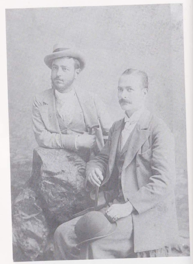 Anton_Buzukov_and_Ivan_Karandzhulov